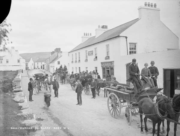 Photograph taken between 1880 and 1900 Format: glass negative Part of: National Library of Ireland Collection Reference number: L_ROY_04085